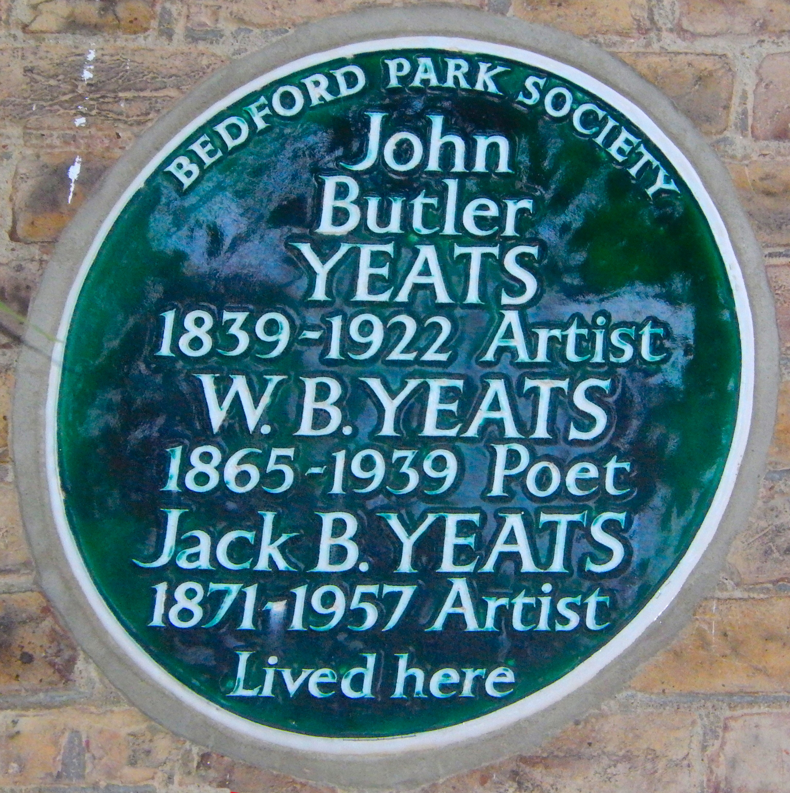 Bedford Park Society green plaque "John Butler YEATS 1839-1922 Artist; W. B. Yeats 1865-1939 Poet; Jack B. Yeats 1871-1957 Artist Lived here" at 3 Blenheim Road, Bedford Park, London W4